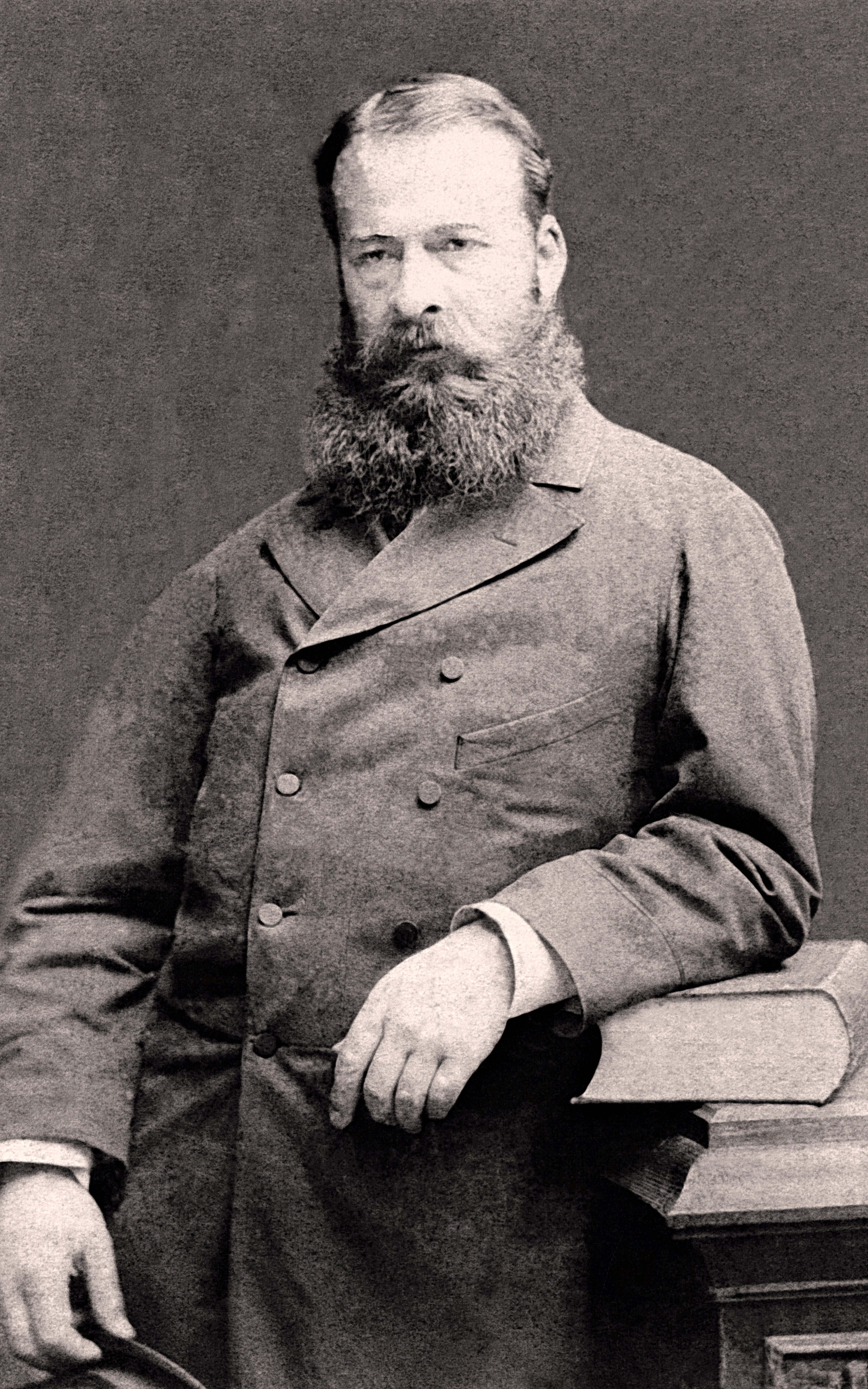 Theodore de Korwin Szymanowski around 1885